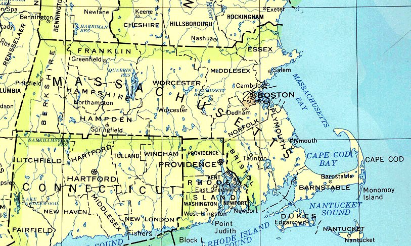 Map of Massachusetts